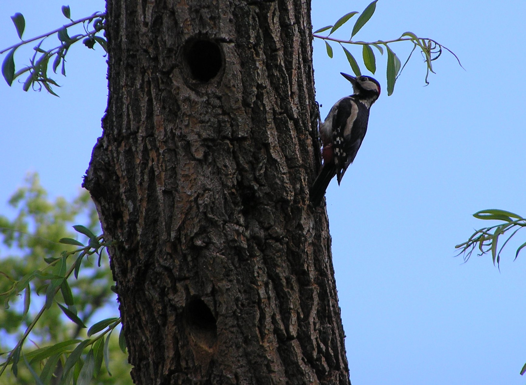 Dendrocopos major, Białowieża, Poland